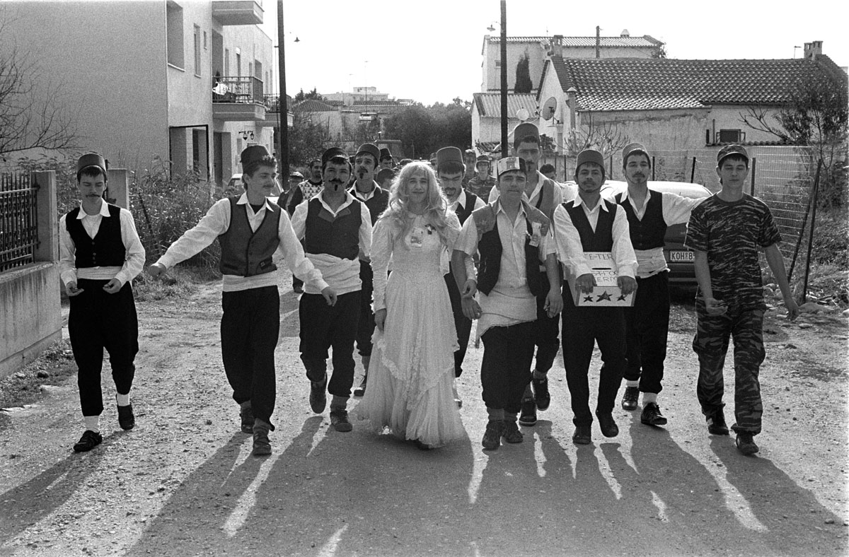 "Deve" (camel) tradition within the "Eid al-Adha"/"Festival of Sacrifice", Komotini, Thrace, Greece.